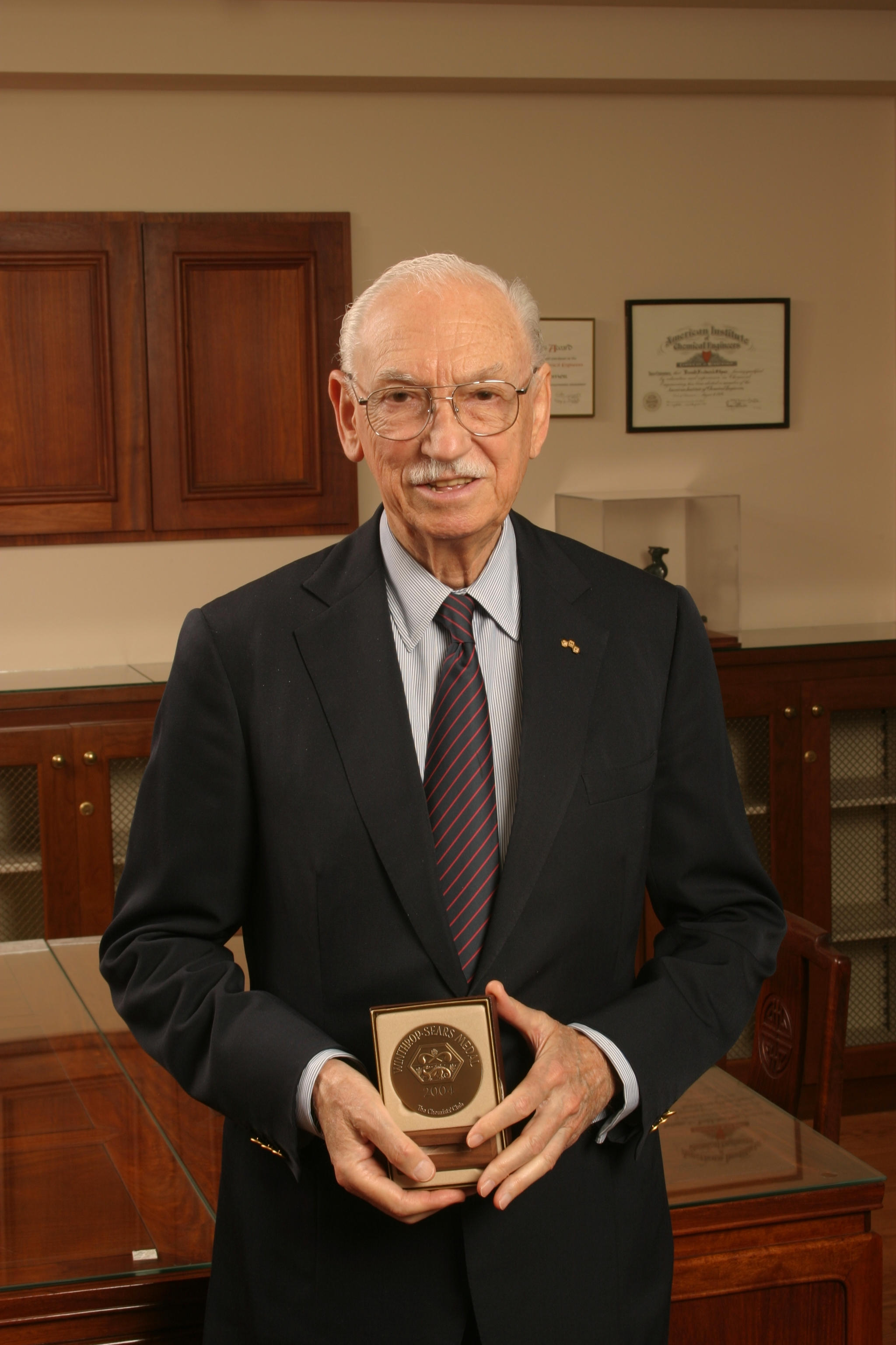 Photograph of Alejandro Zaffaroni, chemist and recipient of the 2004 Winthrop-Sears Medal, presented 17 June 2004, at Heritage Day, Chemical Heritage Foundation, Philadelphia, PA, USA.